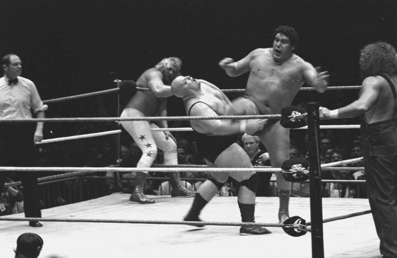 From the days of Tri-X 400: Classic wrestling shot of the late Andre the Giant giving his size 15 boot to King Kong Bundy.